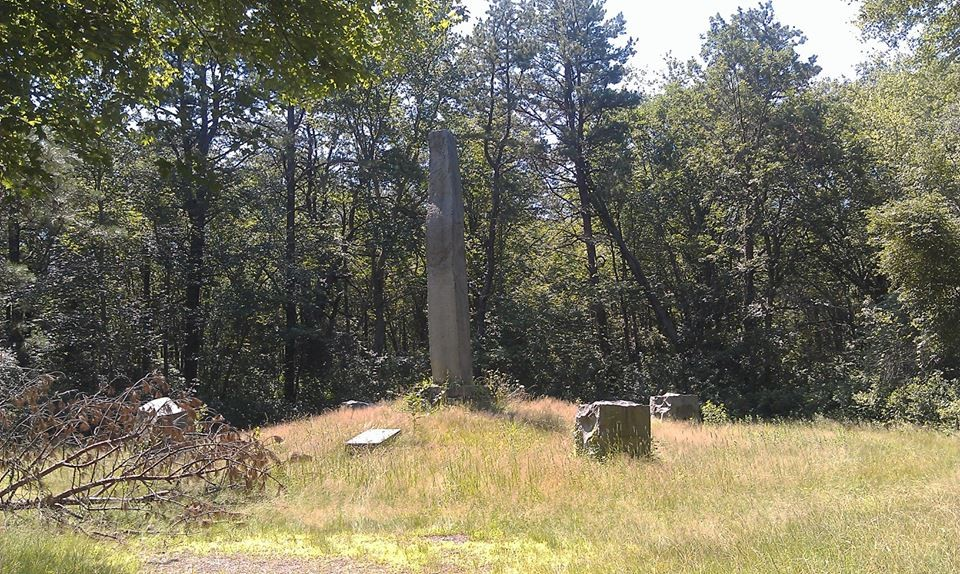 Site of the Great Swamp Fight of 1675 between the English Colonists of Massachusetts Bay, Rhode Island, Connecticut and Plymouth against the Narragansett Tribe. Locted in the Great Swamp State Management Area, South Kingstown, Rhode Island, USA